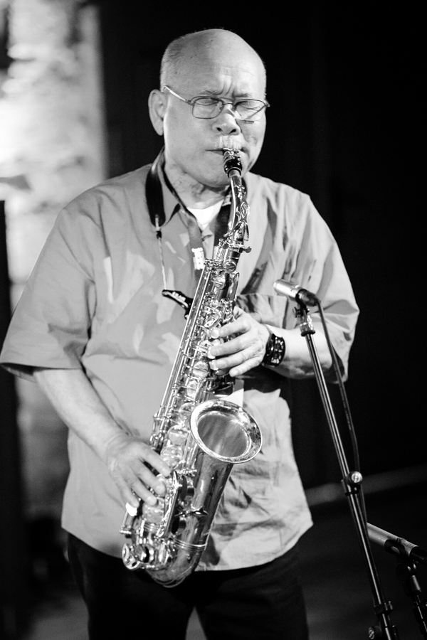 Akira Sakata in concert with John Butcher in Smeltehytta. The concert was part of Kongsberg Jazzfestival and took place on 07. July 2018 in Kongsberg. Lineup: Akira Sakata (saxophone) John Butcher (saxophone)